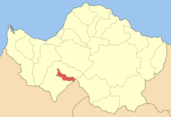 Locator map of Kalentzi Community (Κοινότητα Καλεντζίου) in Achaia perfecture (Νομός Αχαΐας) in Greece. This was the homeland of Andreas Papandreou, greek politician of the 60's-90's.